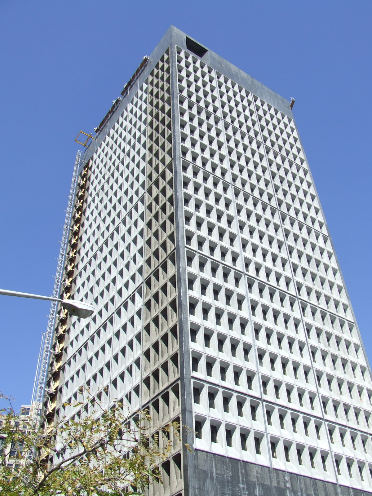 Ameritrust Tower undergoing renovations